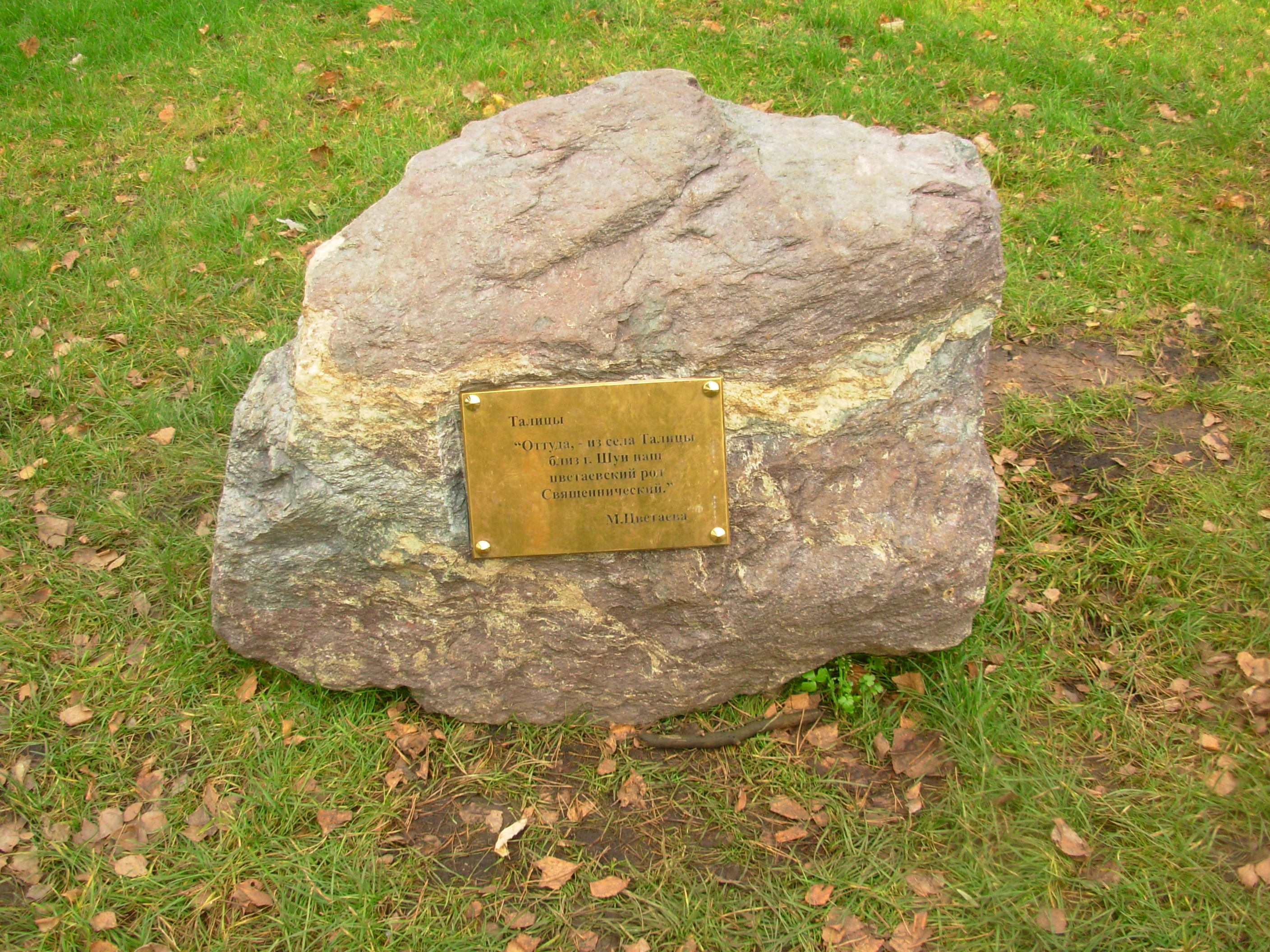 Korolyov town